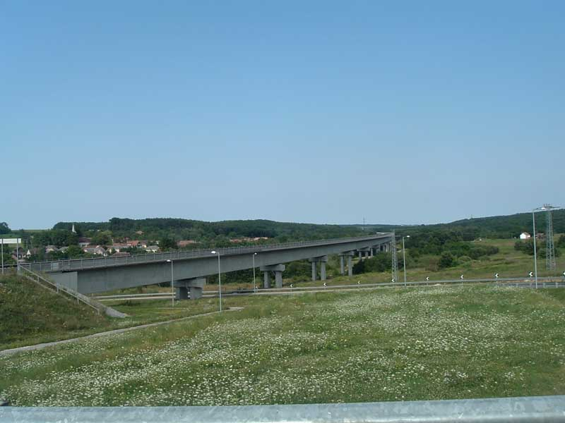 The railway bridge in Nagyrákos, Hungary